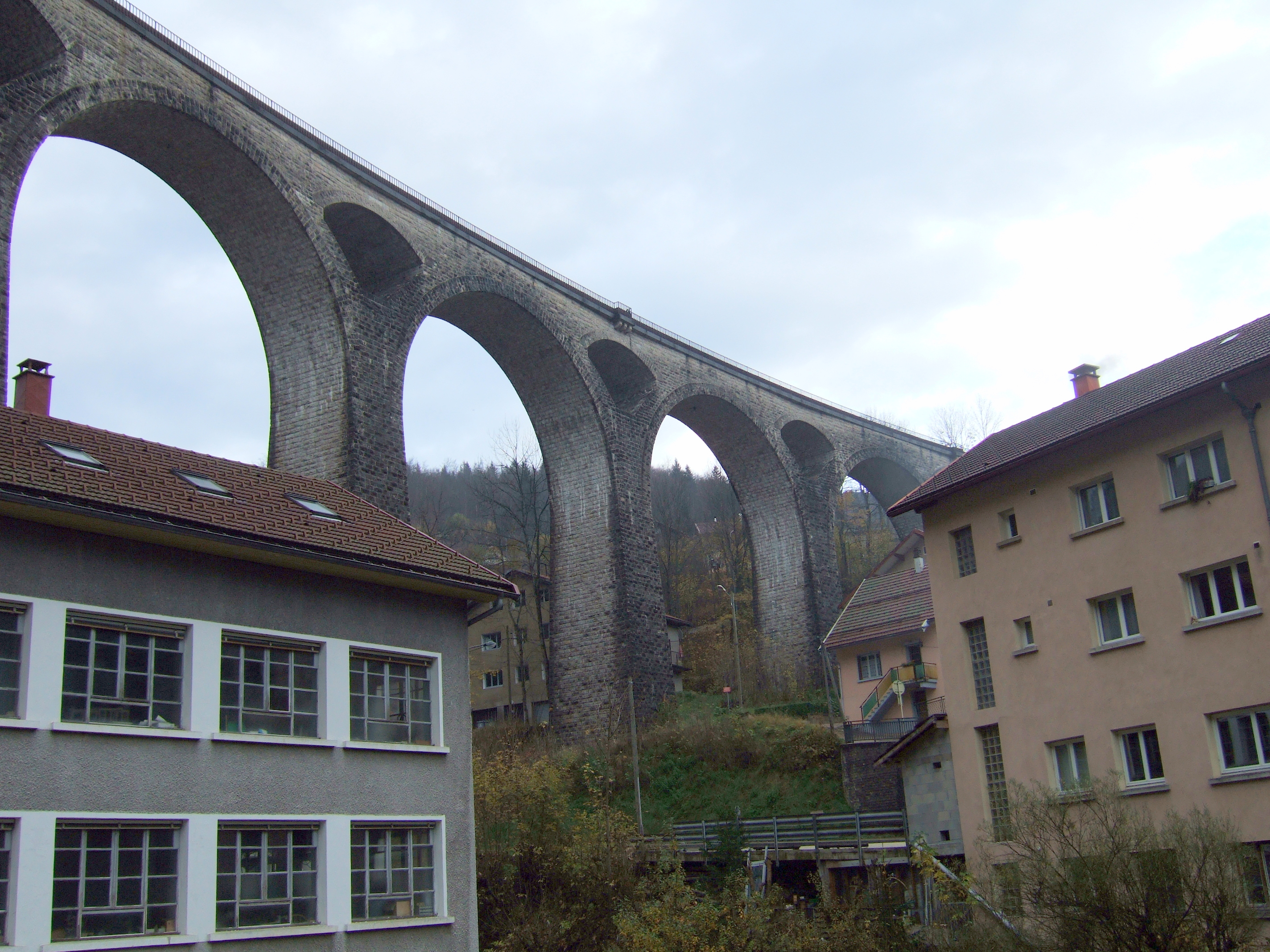 The major landmark of Morez, in the Jura, France.